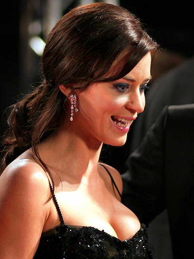 Emily Blunt at the Orange British Academy Film Awards in London's Royal Opera House.